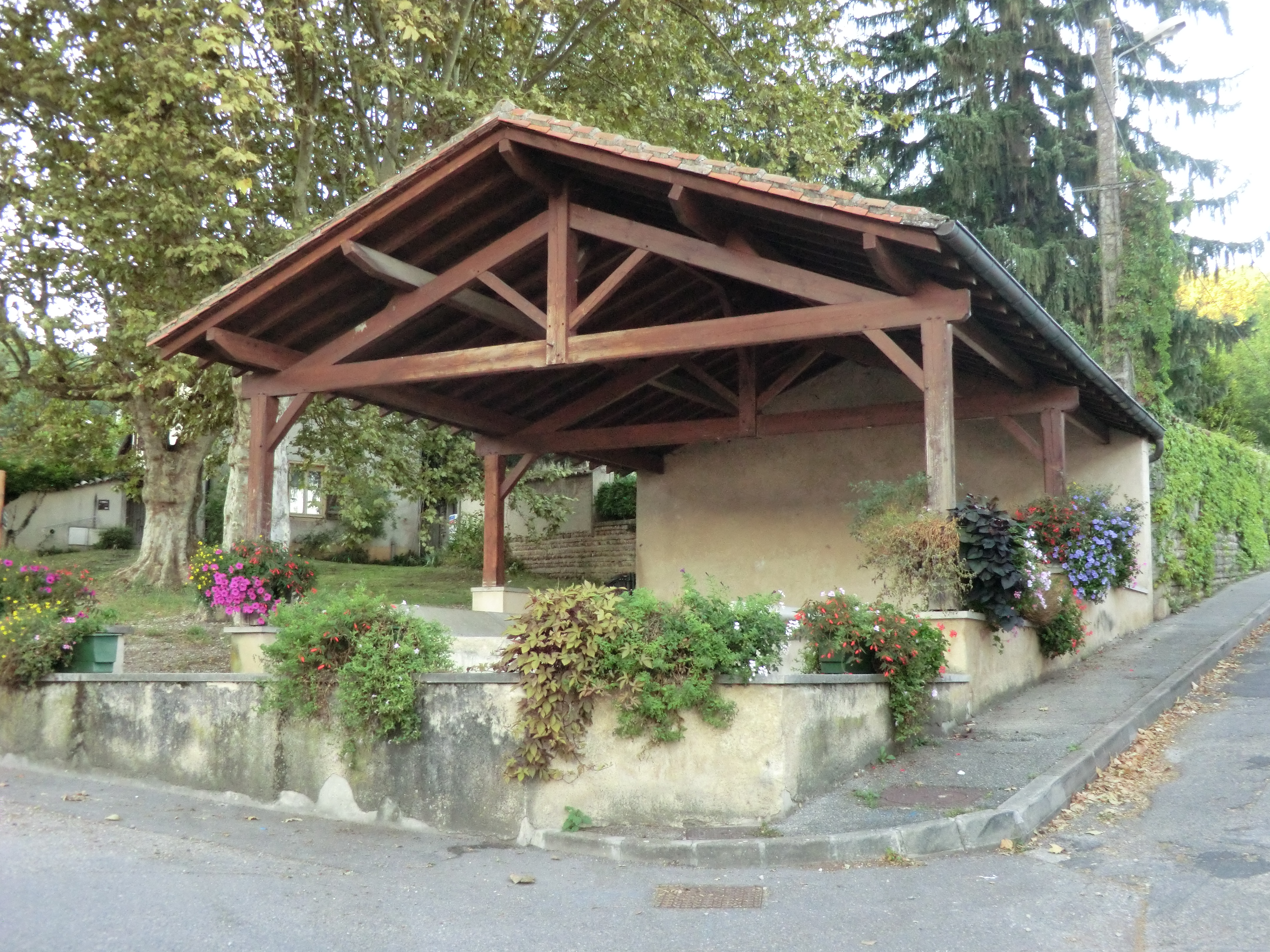 Wash house of Saint-Maurice-de-Beynost.